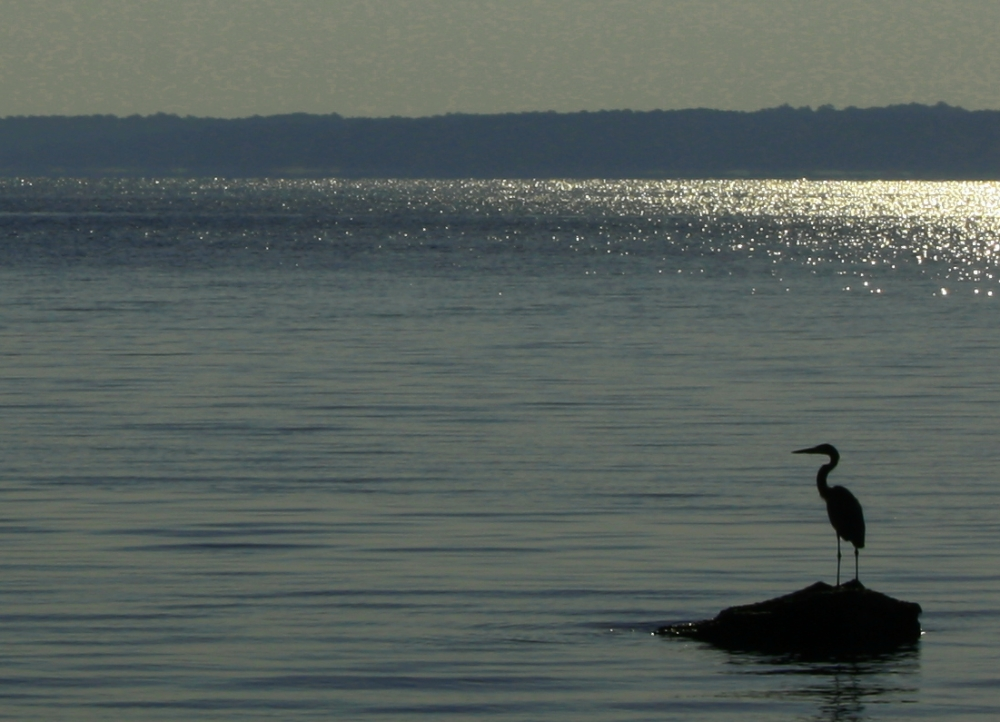 Great Blue Heron on Sardis Lake, MS.